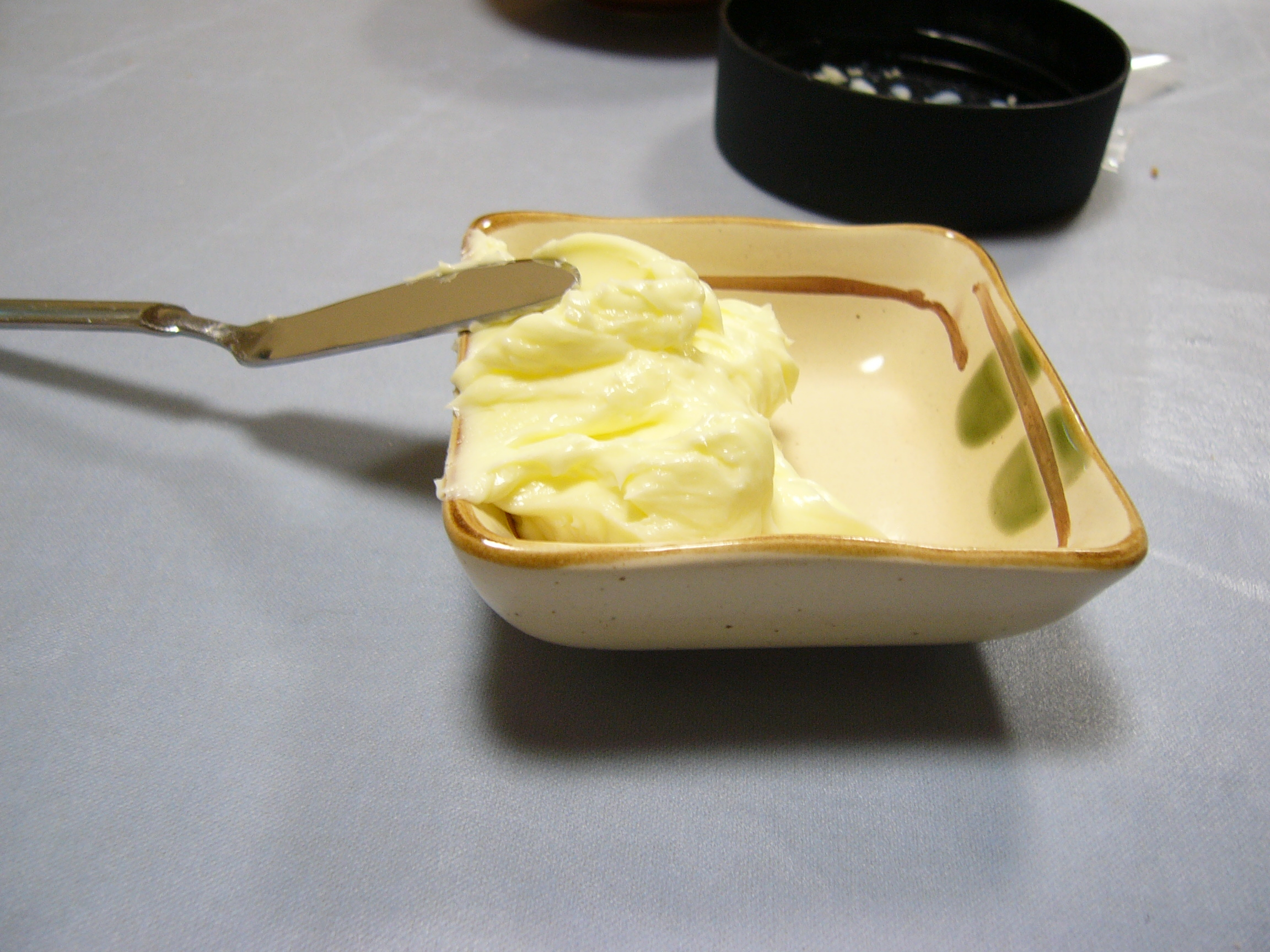 Hand-made_butter （バターづくり、完成したバター）,北海道興部町で撮影